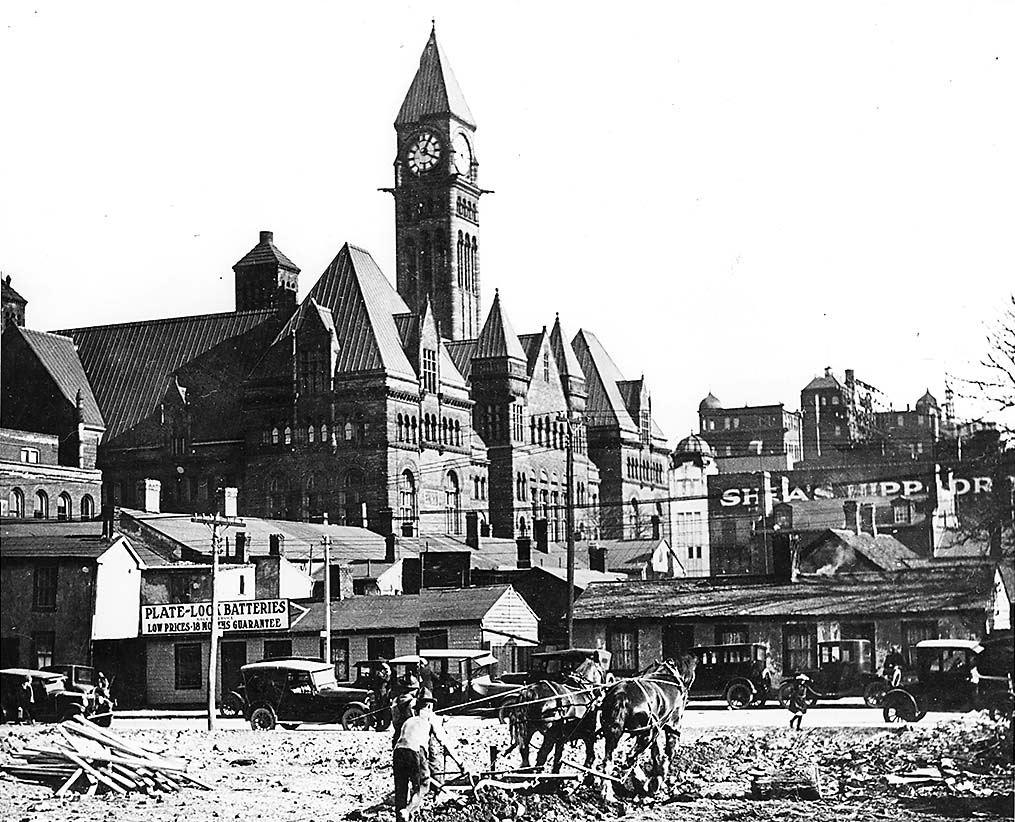 West of intersection of Bay and Albert Streets, Toronto, Canada, with City Hall in background. Archives notation:"The location may be Eaton's parking lot. The team of horses may be clearing a site for a new building." In 1960s, Nathan Phillips Square and new City Hall would be constructed at this location.